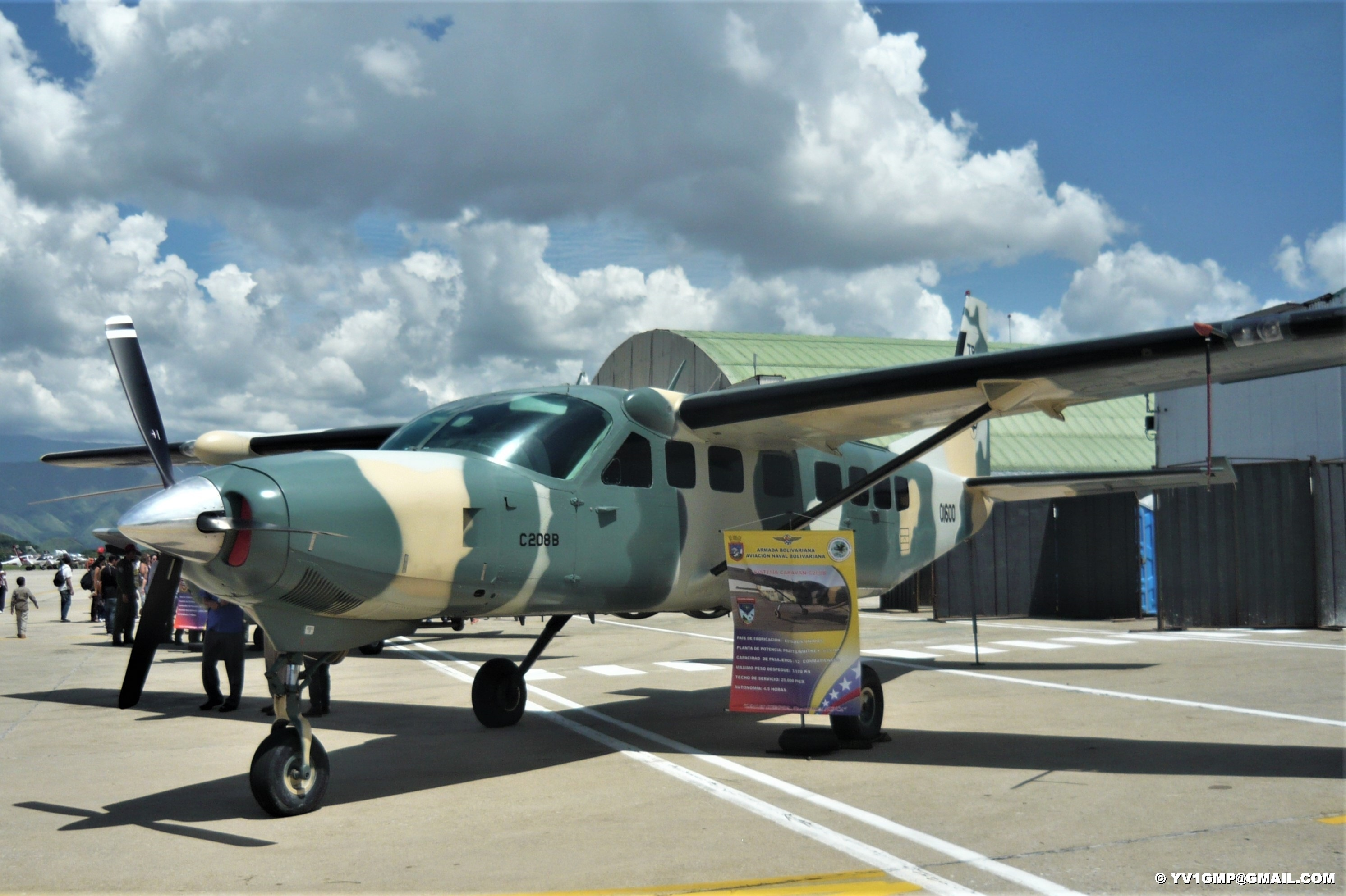 Aircraft belonging to the command of naval aviation Bolivariana of Venezuela armada